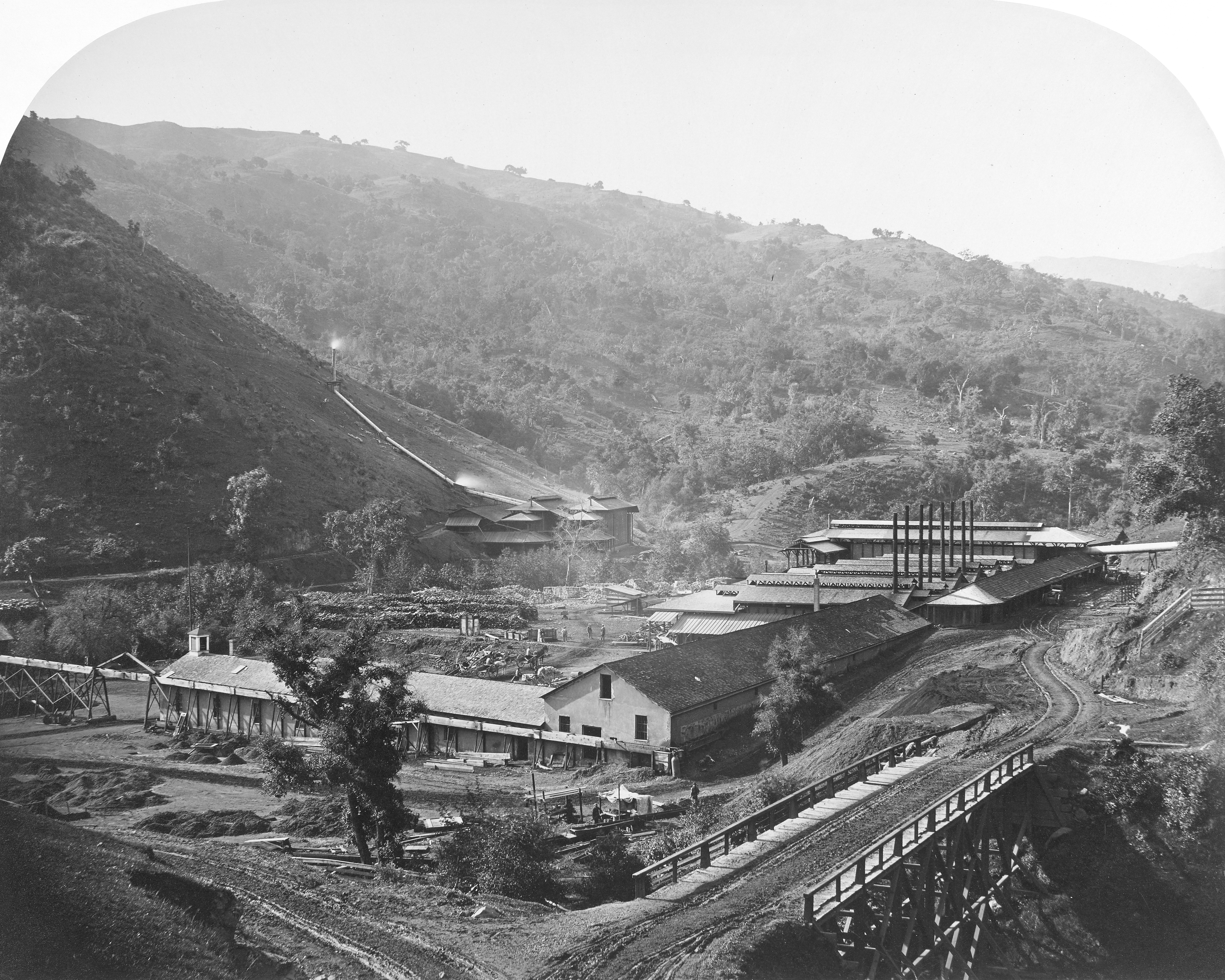 Smelting Works — at the New Almaden Mine. Located in Almaden Quicksilver County Park, Santa Clara County, Northern California.